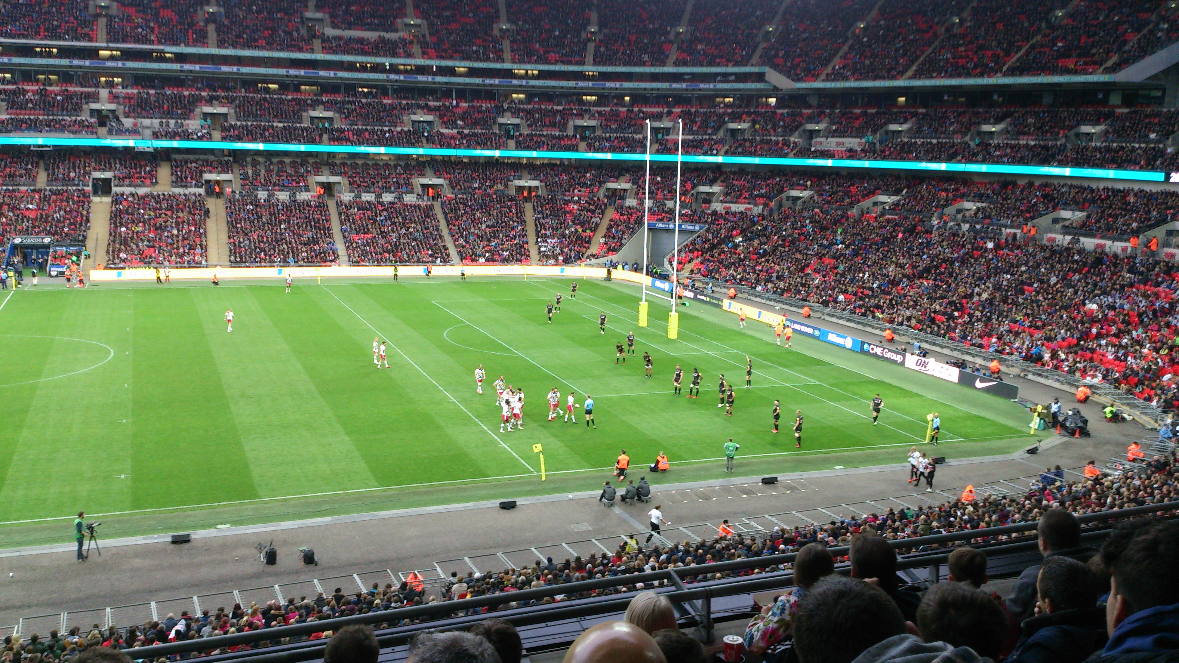 Saracens-Harlequins at Wembley